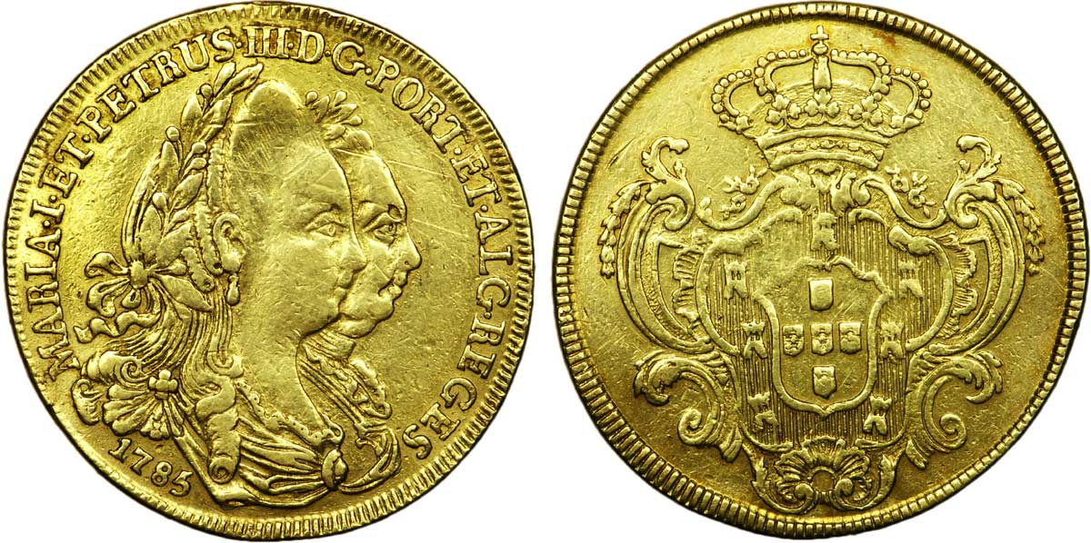 4 escudos en or à l'effigie de Marie I et Pierre III, 1785